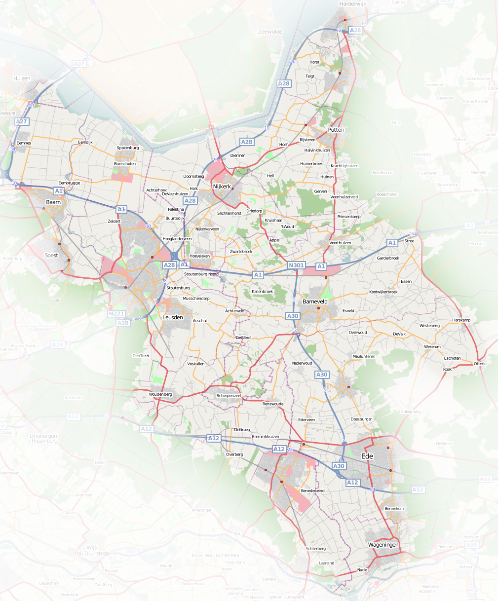 Map of the Gelder Valley.